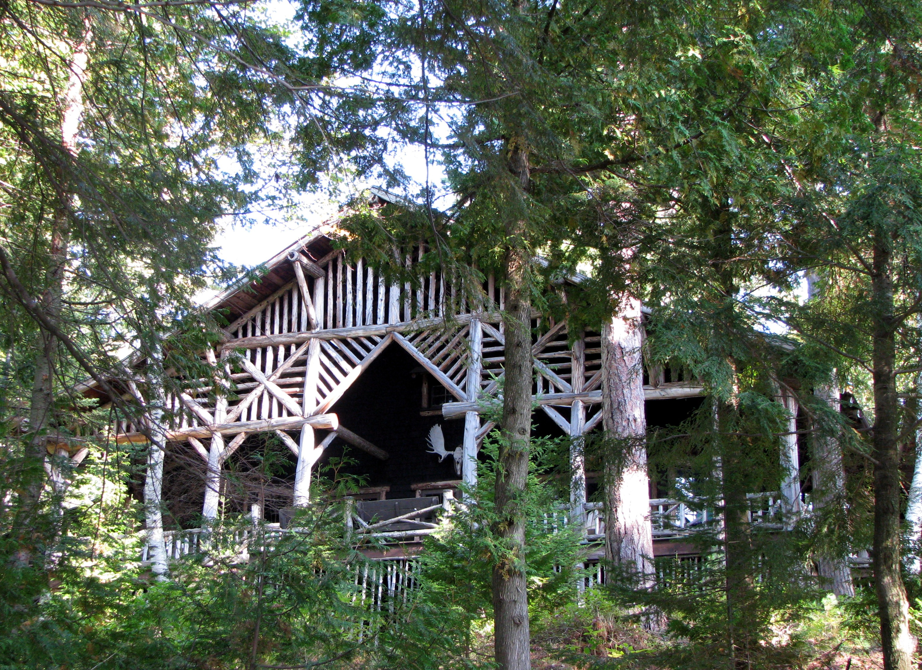 Eagle Island Camp Upper Saranac Lake, NY